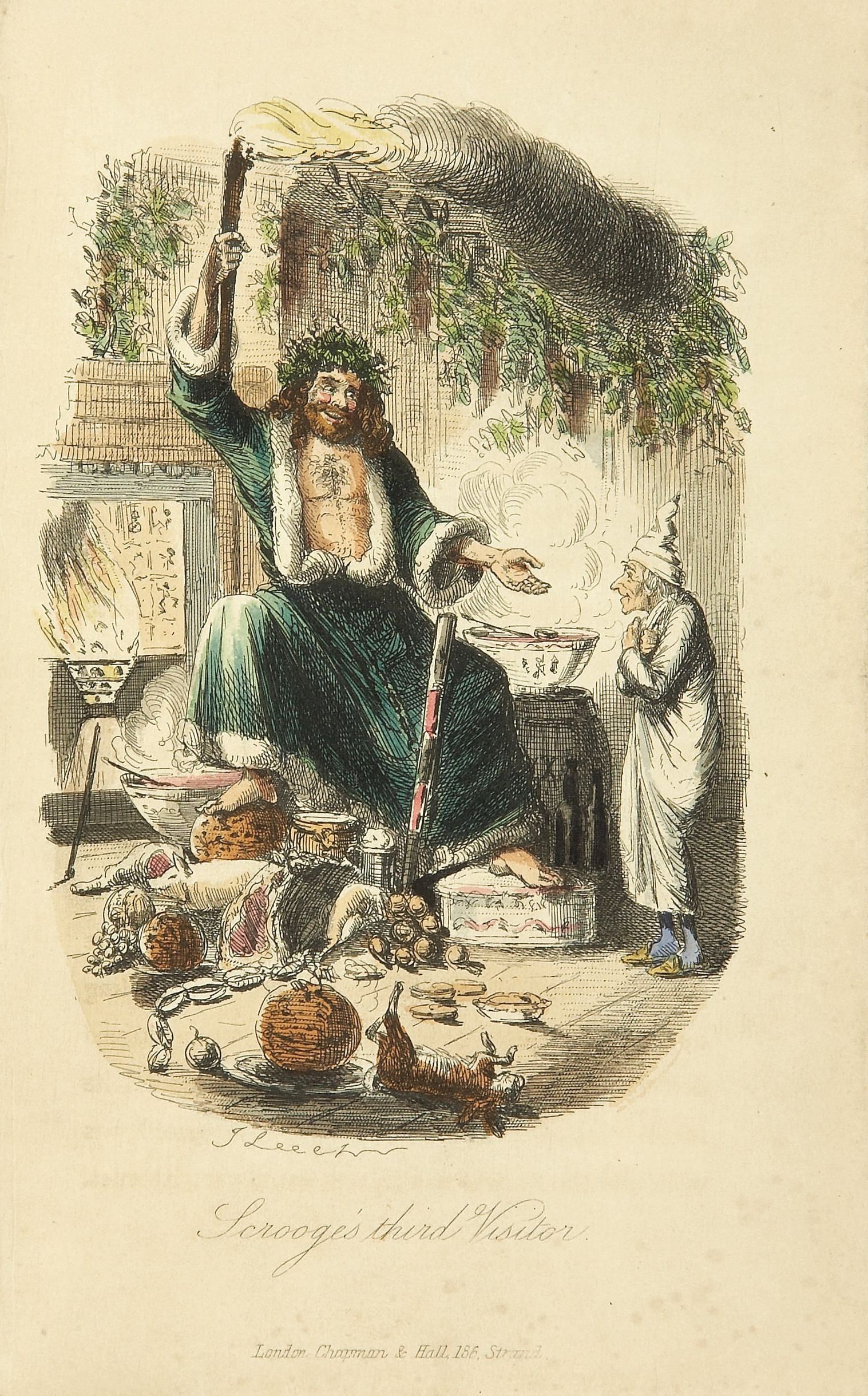 Scrooge's third visitor, from Charles Dickens: A Christmas Carol. In Prose. Being a Ghost Story of Christmas. With Illustrations by John Leech. London: Chapman & Hall, 1843. First edition. This image is one of four hand-coloured etchings included in the first edition. There were also four black and white engravings.